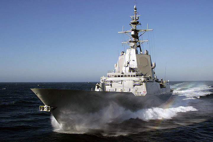 A port bow view of the Spanish Navy, F 100 Class Frigate, ALMIRANTE JUAN DE BORBON (F 102) underway in the Pacific Ocean during Combat Systems Ship Qualifications Trails on the Pacific Missile Test Center Range off the coast of California (CA).